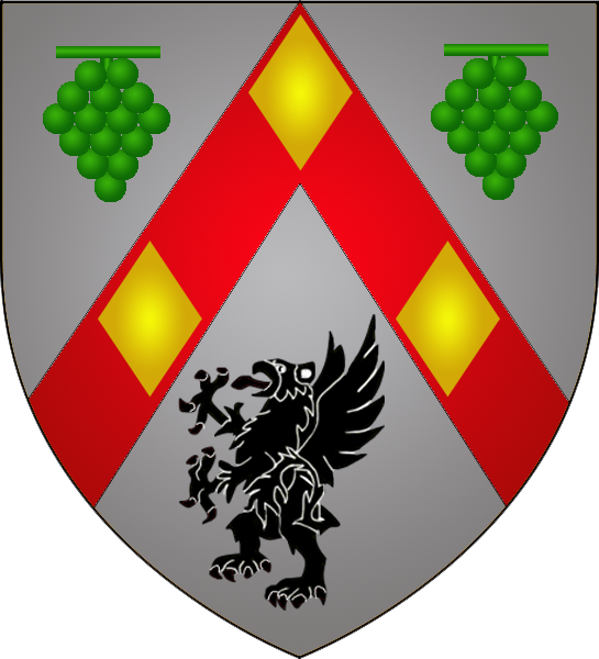 Coat of arms of the municipality of Schengen (previously Remerschen), Luxembourg